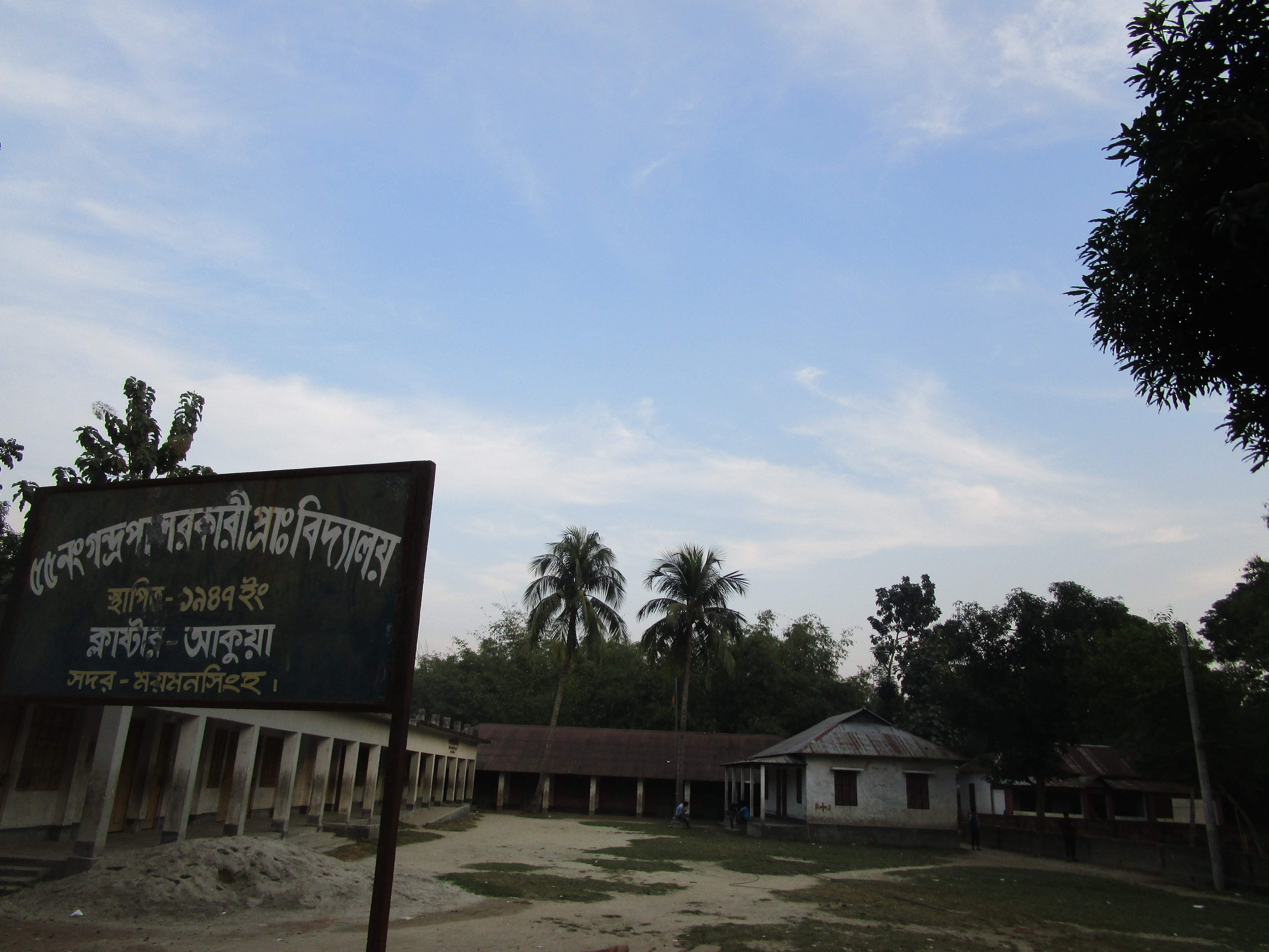 The Campus of Gandrapa Govt. Primary School